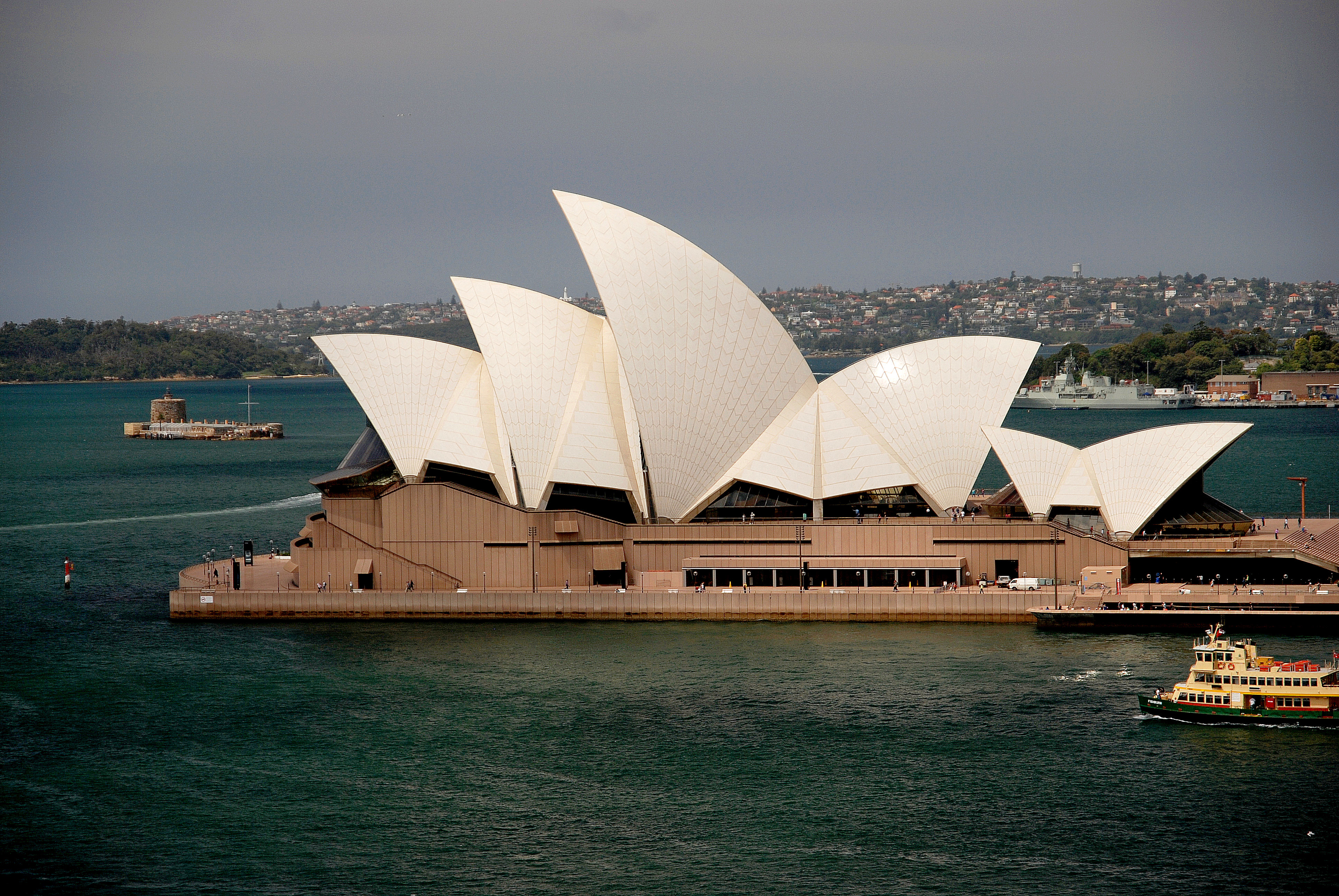 Sydney Opera House, Australia